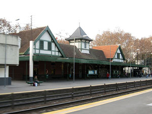 Villa del Parque Train Station